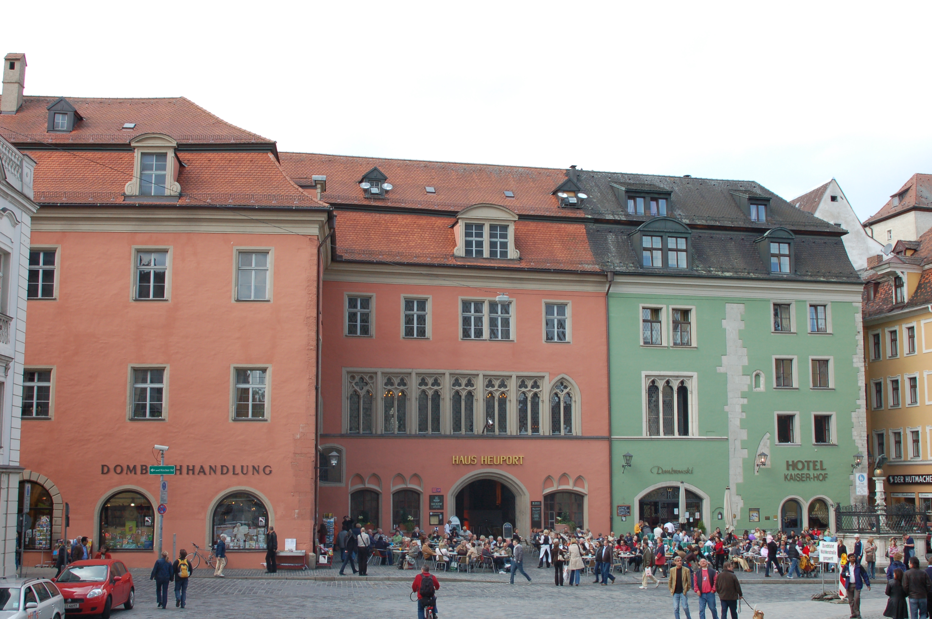 Haus an der Heuport, Regensburg, Germany; Bavaria This is the photograph of an architectural monument. It is part of the list of cultural monuments of Bayern, no. D-3-62-000-318